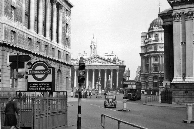 Bank Station, one entrance, City of London, Great Britain. One of the several entrances to the Underground concourse; view eastward at confluence of Queen Victoria Street (on right, with front of Mansion House prominent) and Poultry (on left); the Royal Exchange is straight ahead, with Cornhill on its right; Lombard Street and King William Street hidden behind Mansion House. Traffic was light because it was a Sunday. The bus is on Route 22.